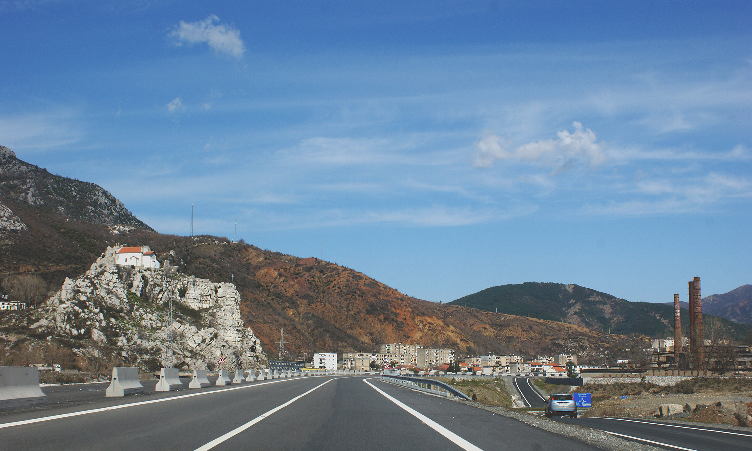 Highway from Durrës to Prishtina at Rubik in Mirdita, Albania.